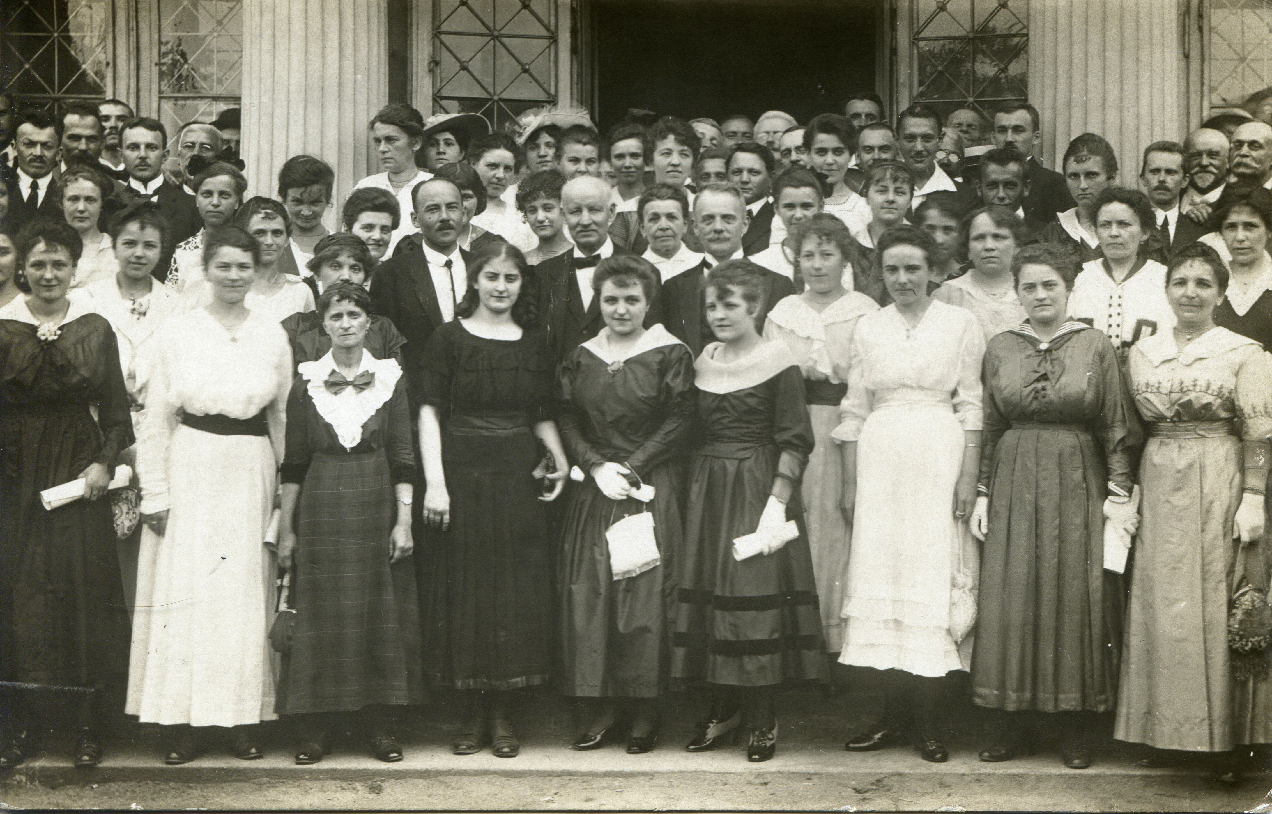 Prague Hlahol Choir